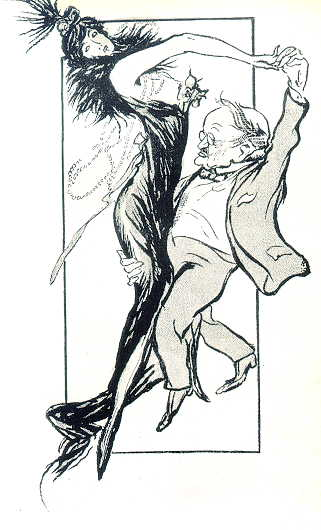 Sem (Georges Goursat), Giovanni Boldini dancing with Ava Astor, 1913